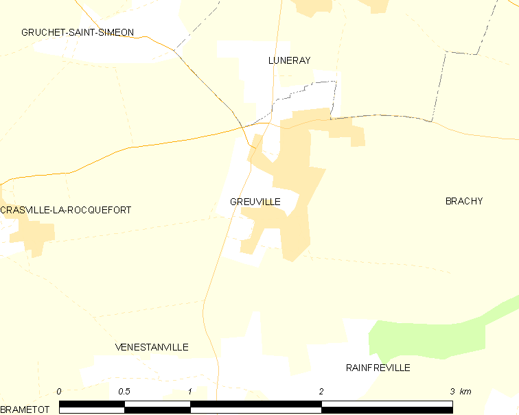 Map of French municipality Greuville